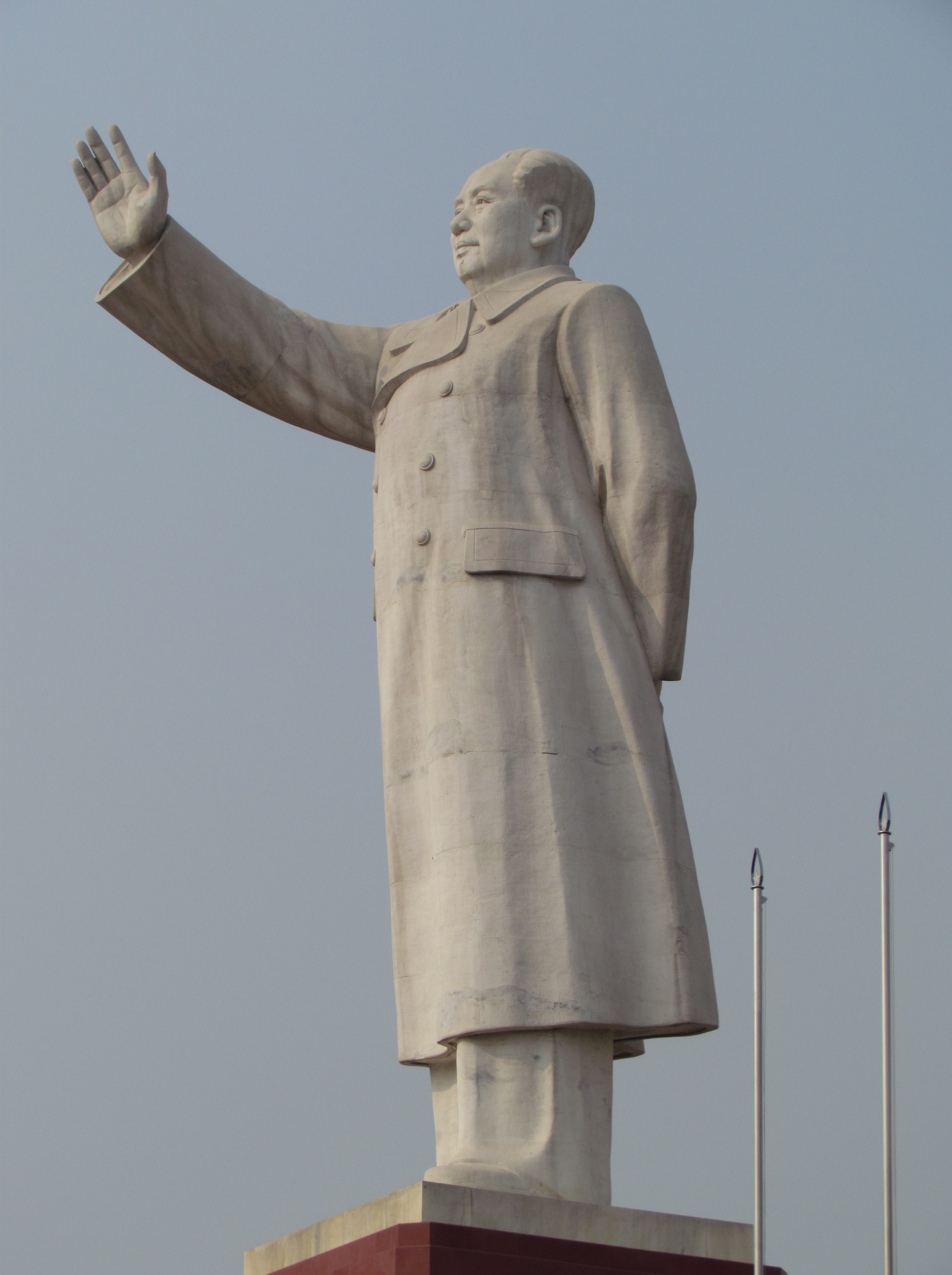 Mao Statue in Kashgar. With an height of 18 m, this is one of the few large-scale statues of Mao remaining in China